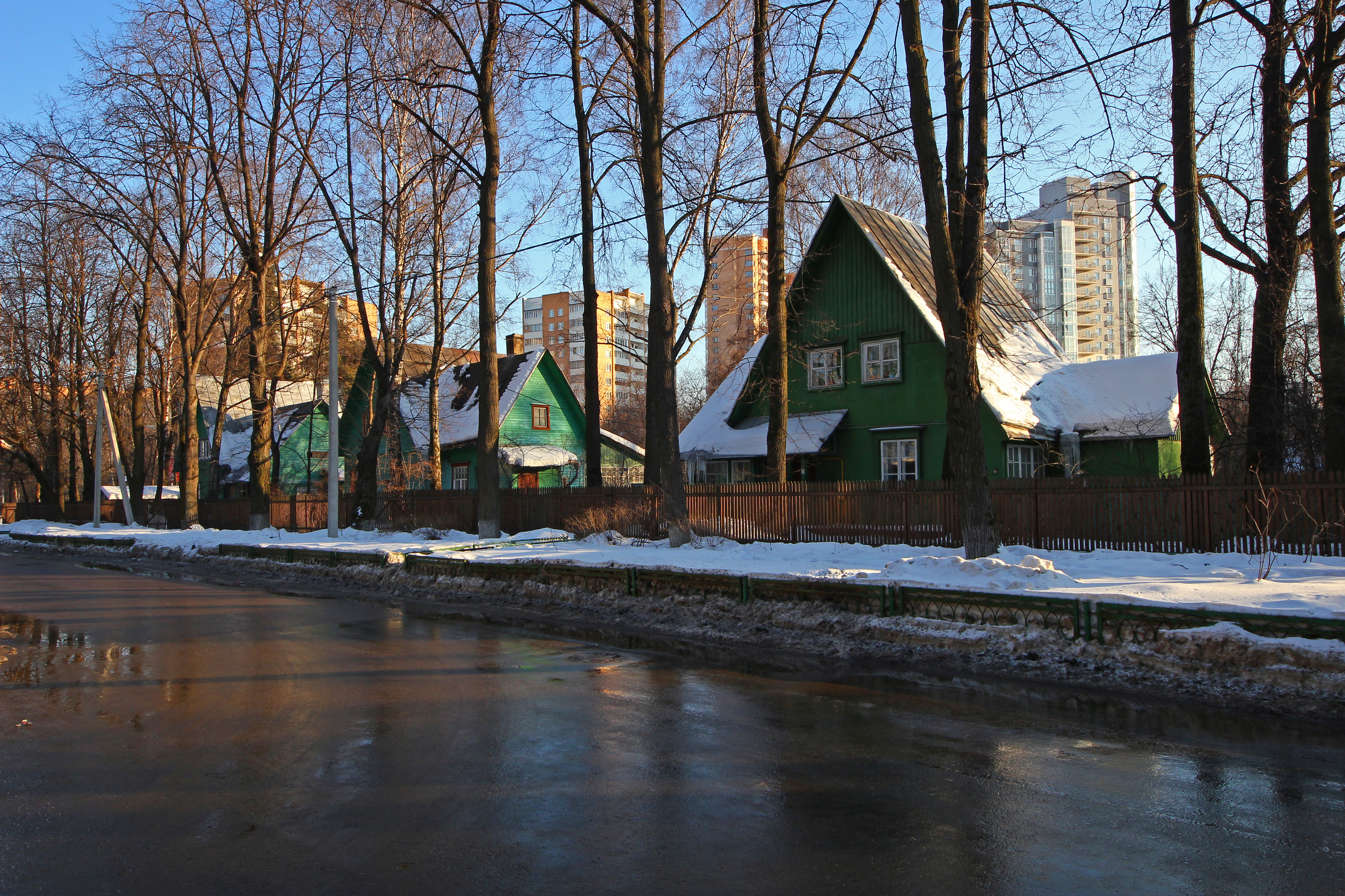 Views of the Sokol Settlement in Moscow.